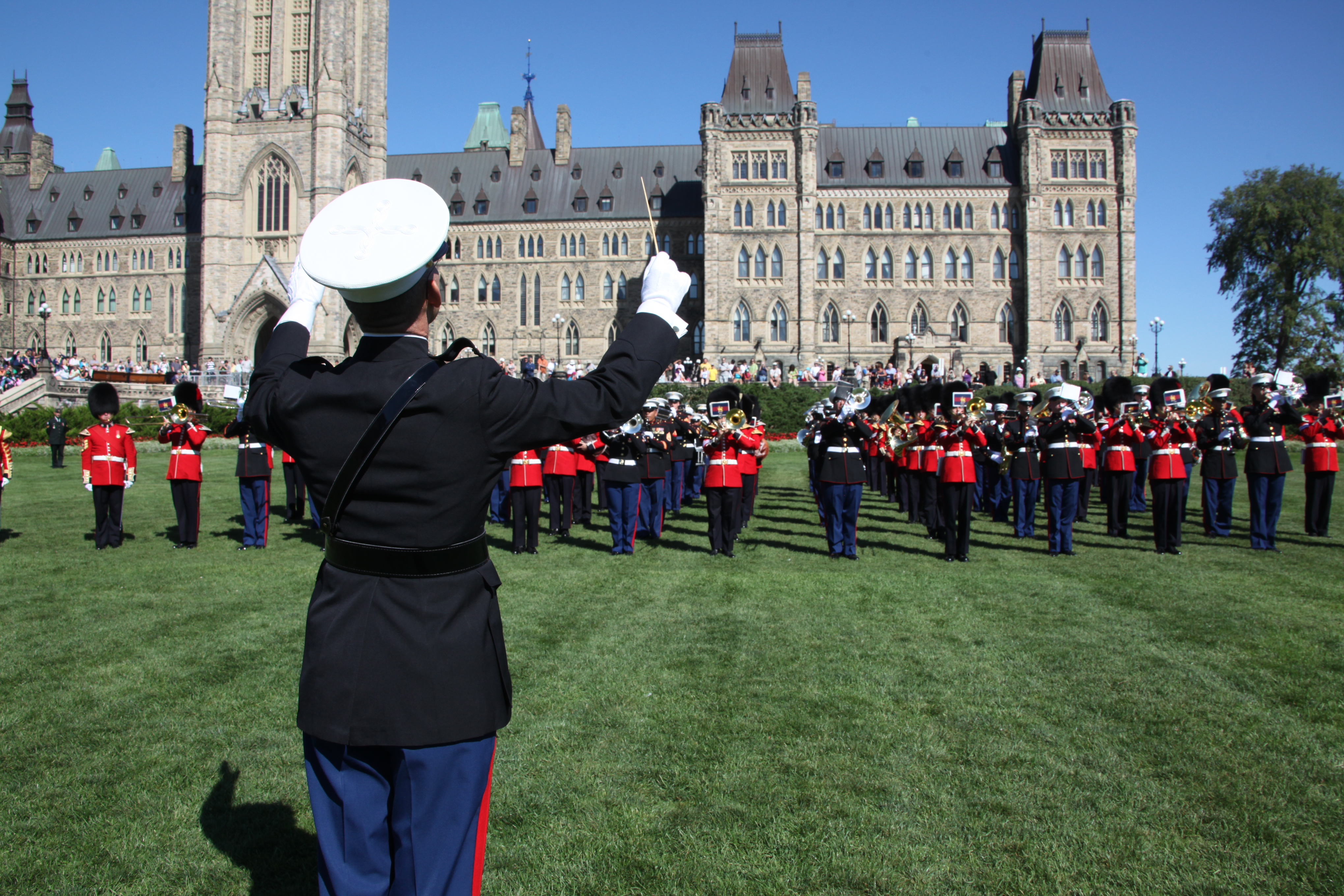 Chief Warrant Officer 3 Robert A. Szabo, the director of the 2nd Marine Aircraft Wing Band, leads an ensemble of Marine and Canadian Forces musicians through the National Anthem on Parliament Hill in Ottawa, Canada, Aug. 13. The band traveled to Canada in support of the 13th annual Fortissimo, a celebration of military musical heritage.